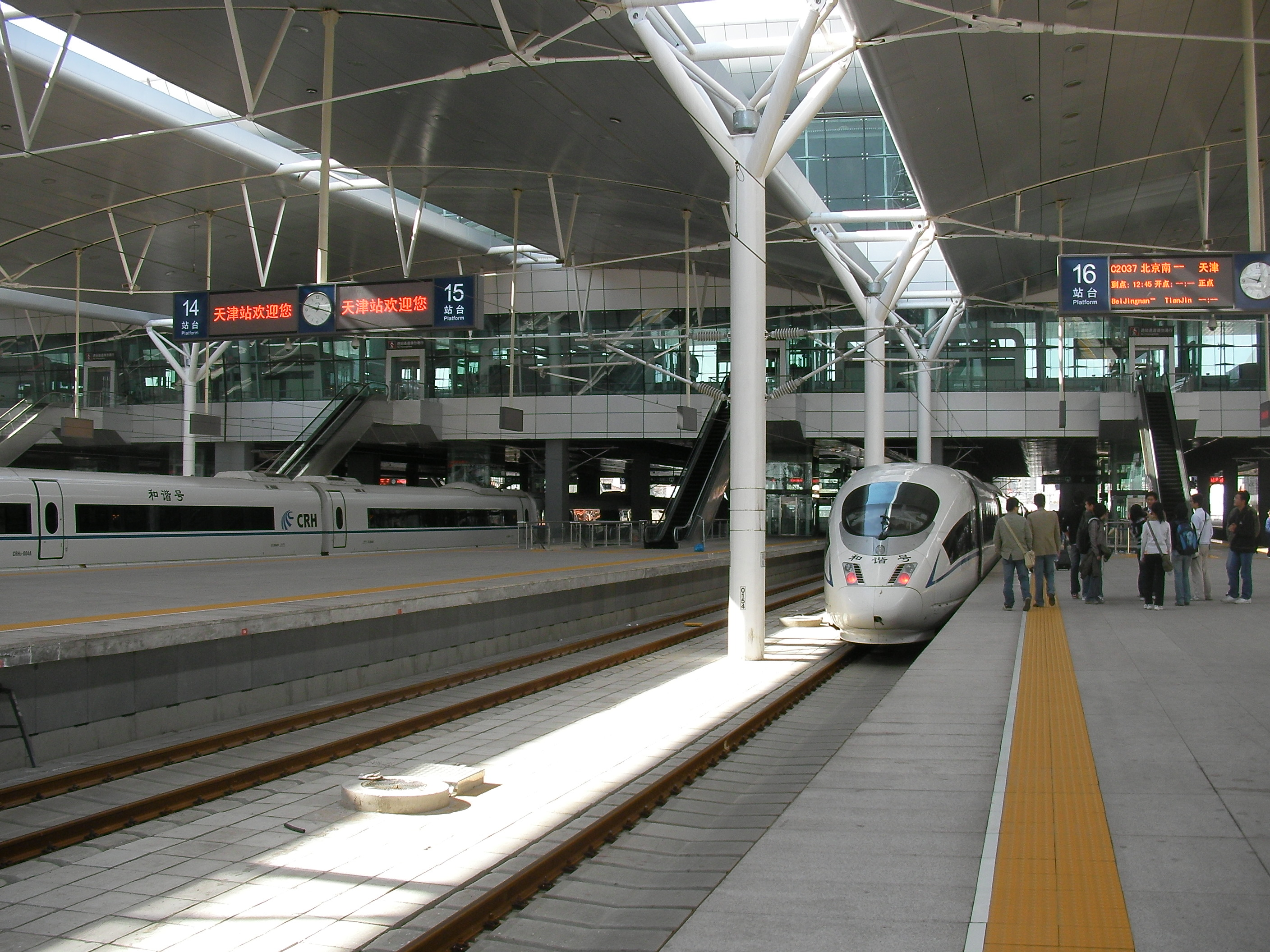 The newly refurbished Tianjin Railway station platform overview with CRH3 in the background.